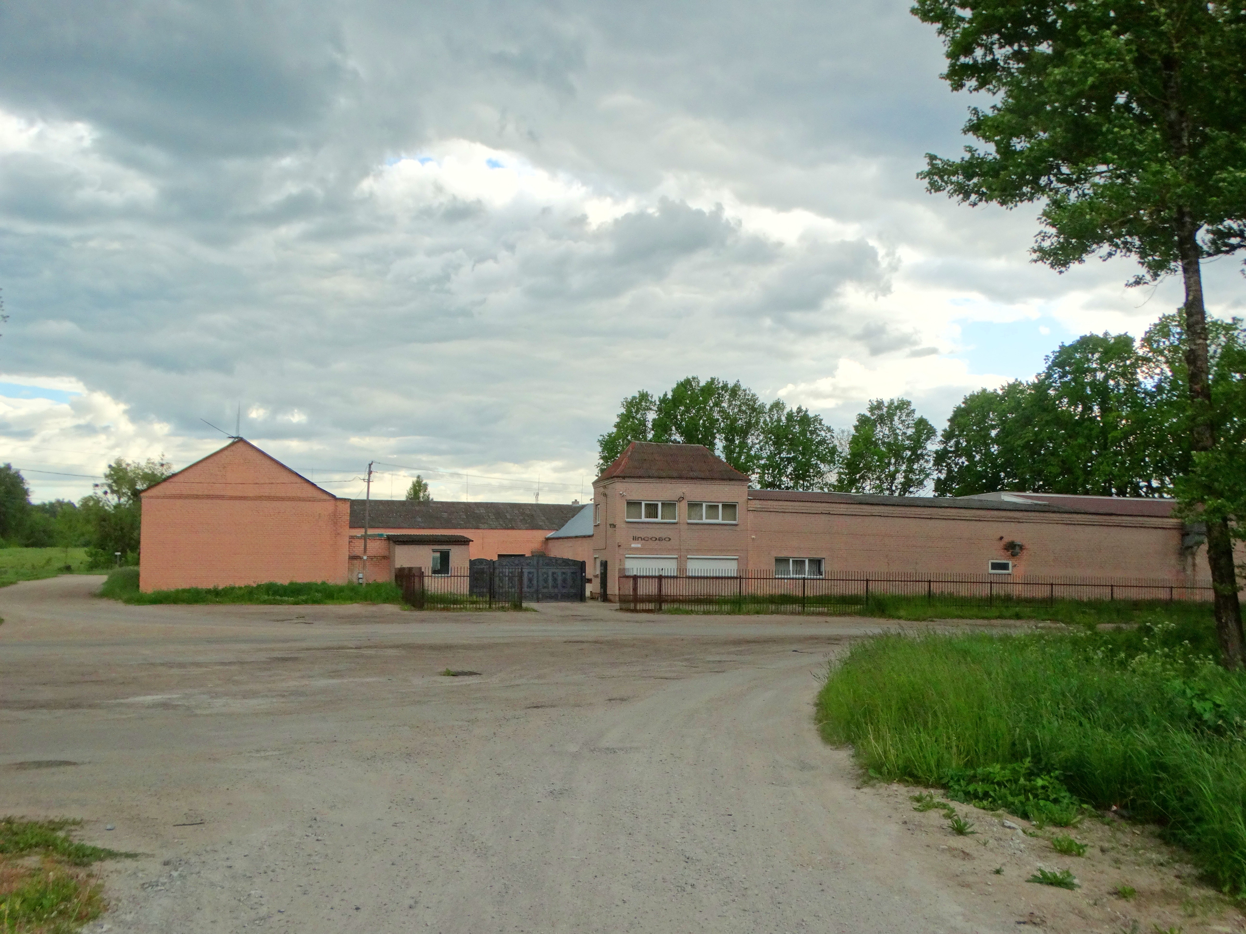 Samylai, Kaunas district, Lithuania